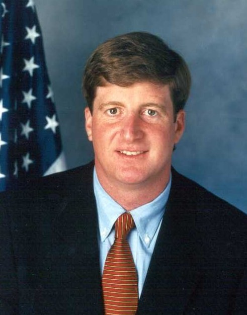 Patrick J. Kennedy, member of the United States House of Representatives.